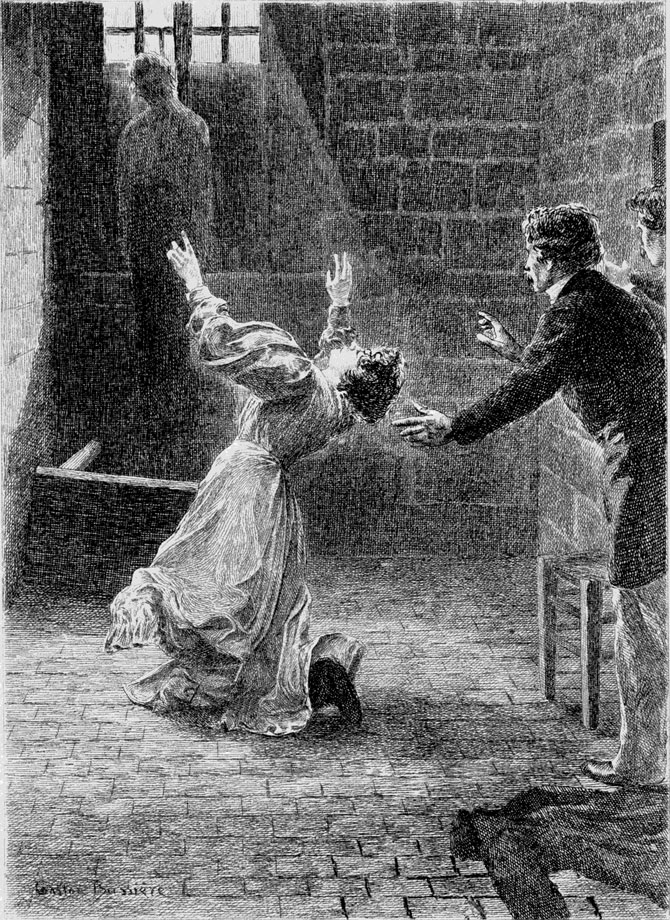 Title page of Honoré de Balzac's The Splendors and Miseries of Courtesans (1847).